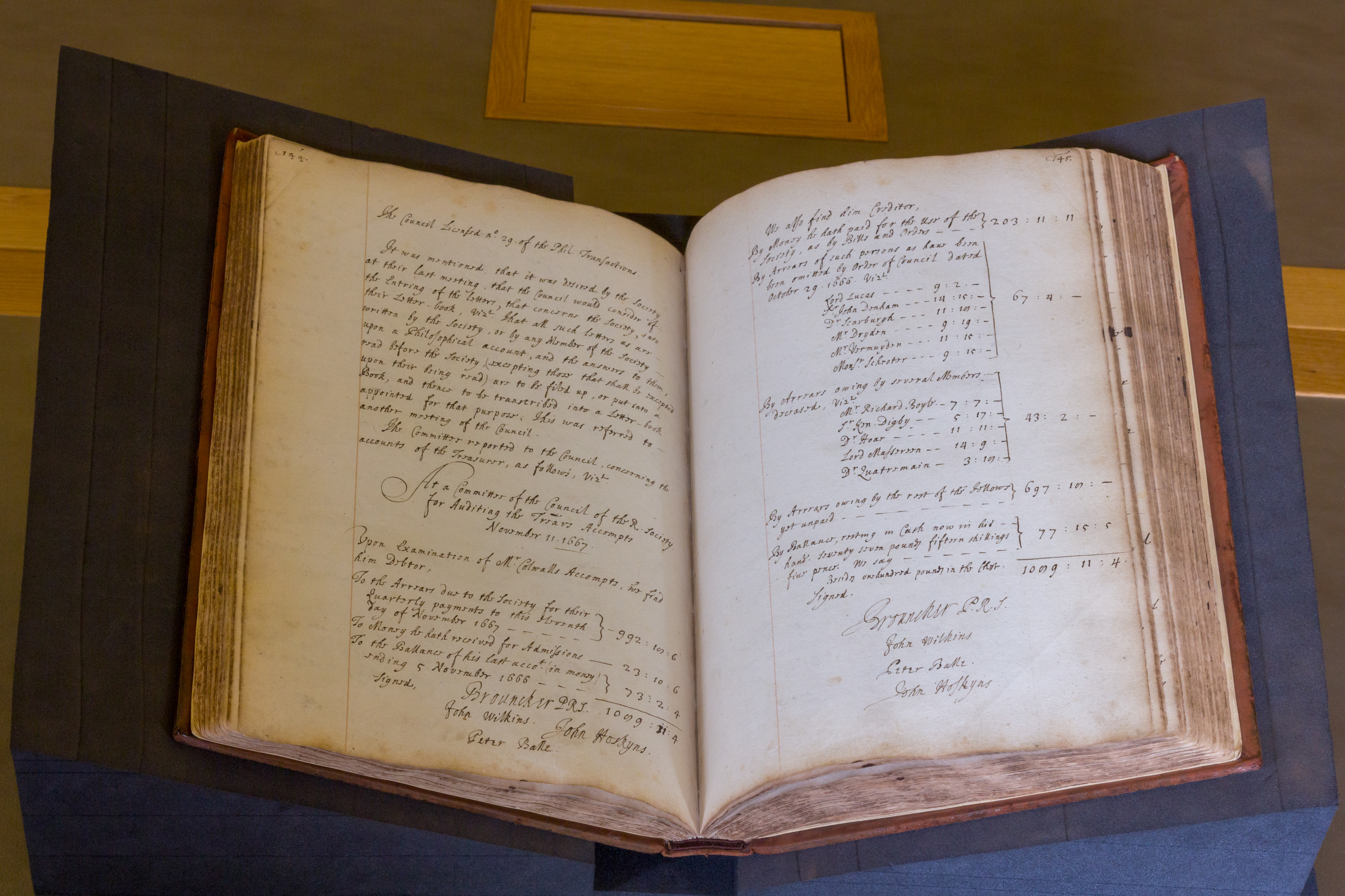 Minutes of the meetings of the Council of the Royal Society, concerned with the business and administration of the Society. CMO/1 – pp144-145, 11 November 1667 Council meeting regarding accounts; pp286-287, minutes from meetings held on 30 May 1678 and 6 June 1678 Catalogue entry.